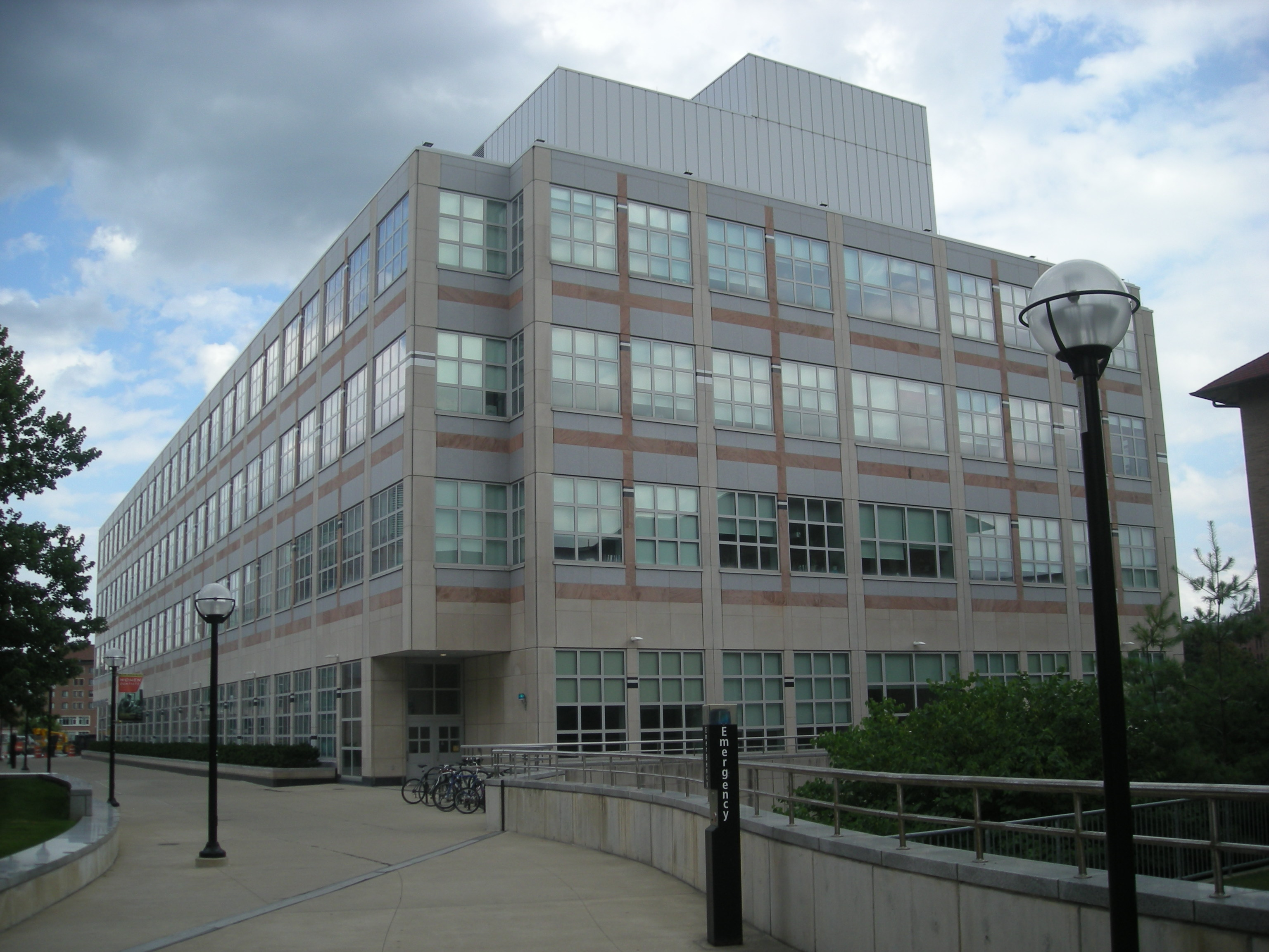 The Life Sciences Institute on the central campus of the University of Michigan in Ann Arbor, Michigan (United States).